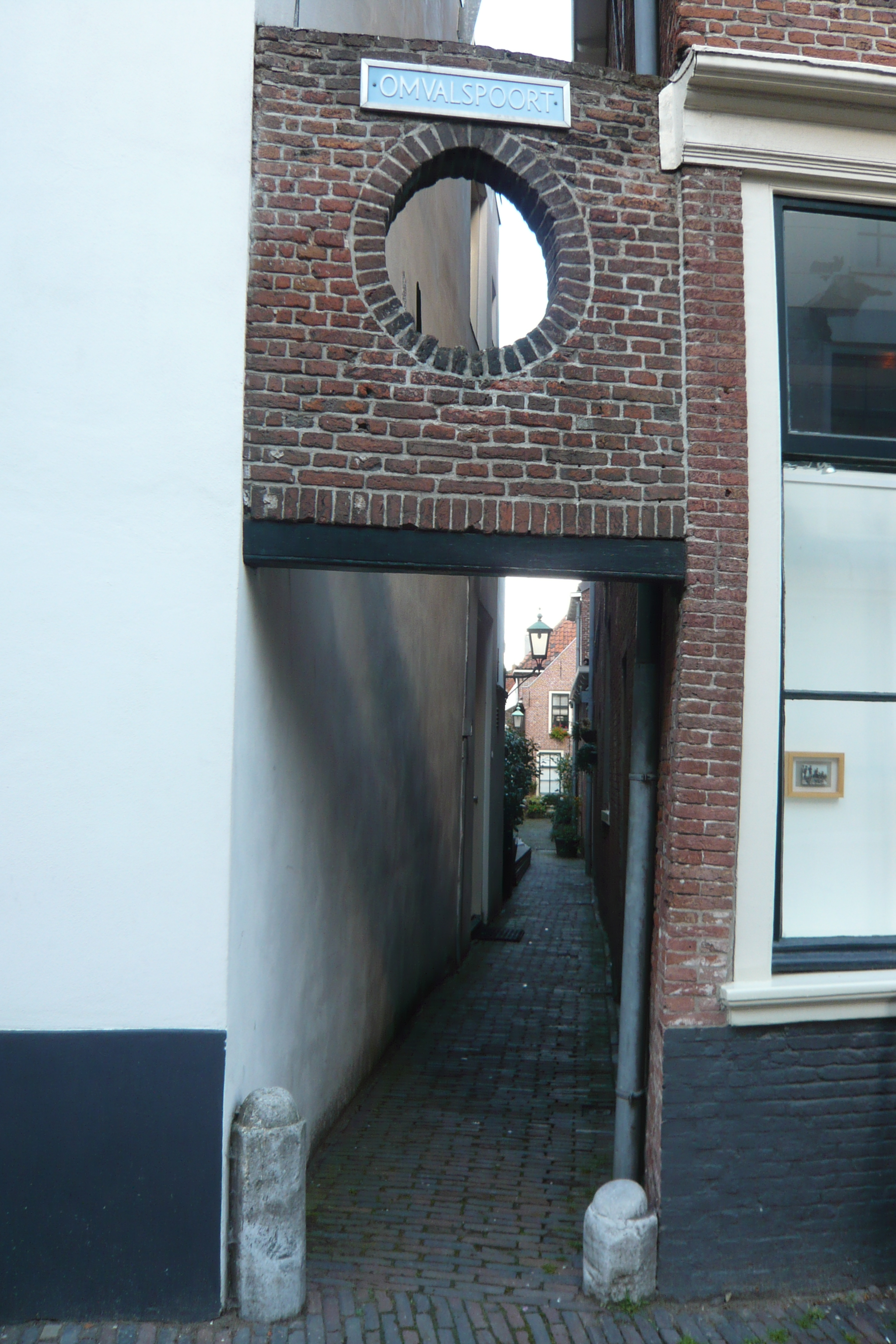 Omvalspoort, Haarlem, seen from the east side